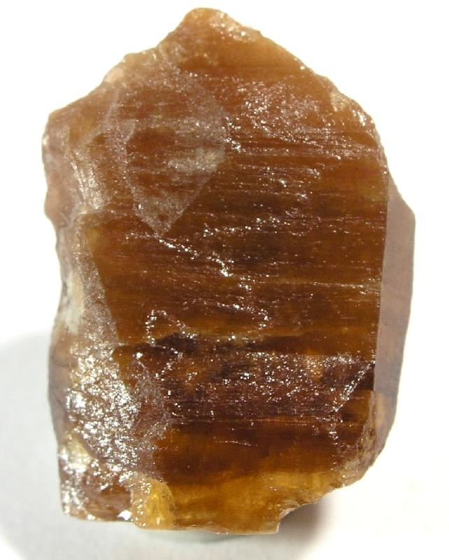 Parisite-(Ce) Locality: Muzo, Vasquez-Yacopí Mining District, Boyacá Department, Colombia (Locality at ) Perhaps as good a luster and color as I have seen on a Parisite crystal, and the striations show up very well against the high luster. It is complete alla round but probably matrix-contacted atop. Nonetheless, a good thumb for an uncommon mineral. 1.3 x 1 x .7 cm